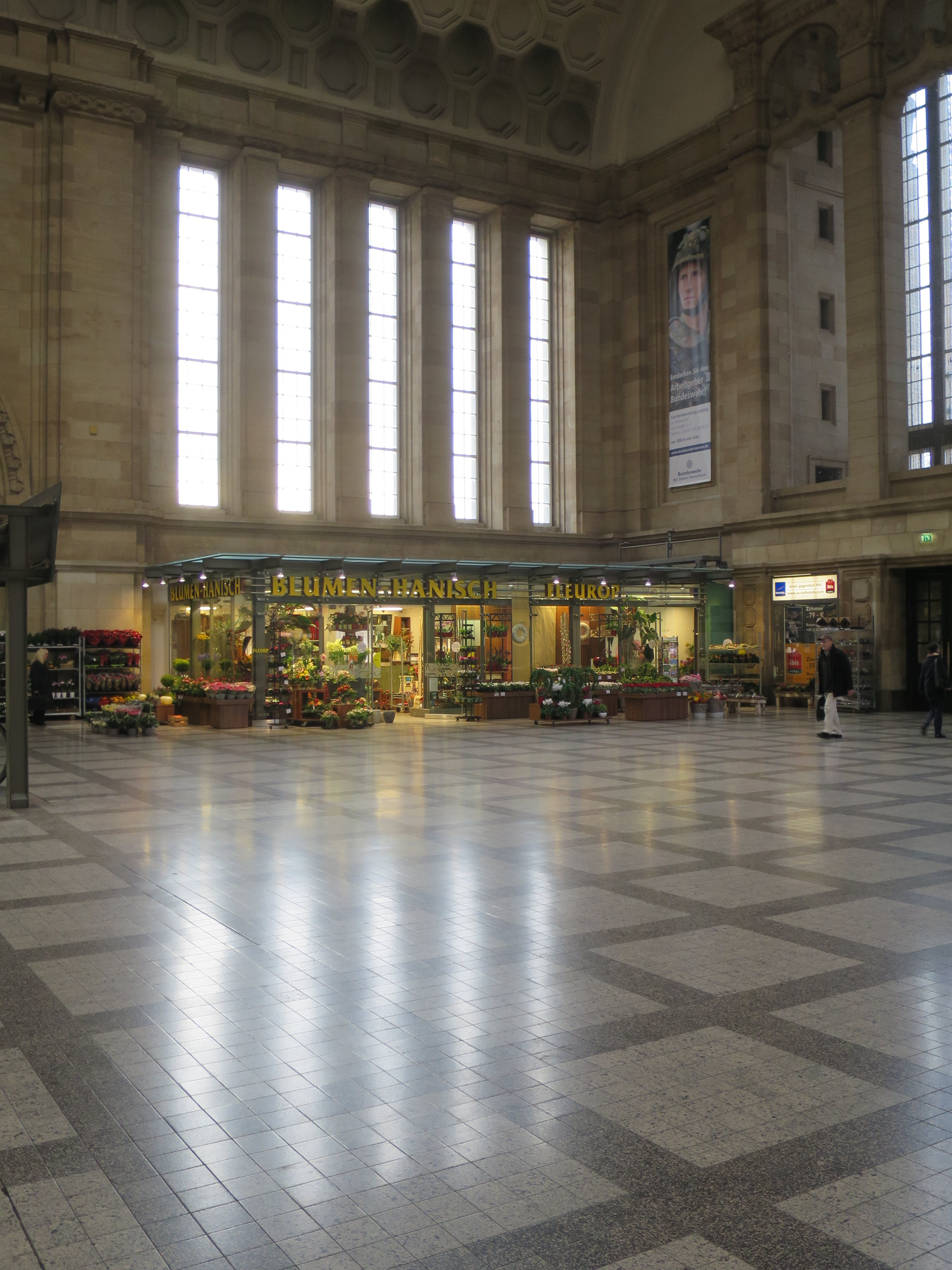 Hanisch flower shop in Leipzig Central Station